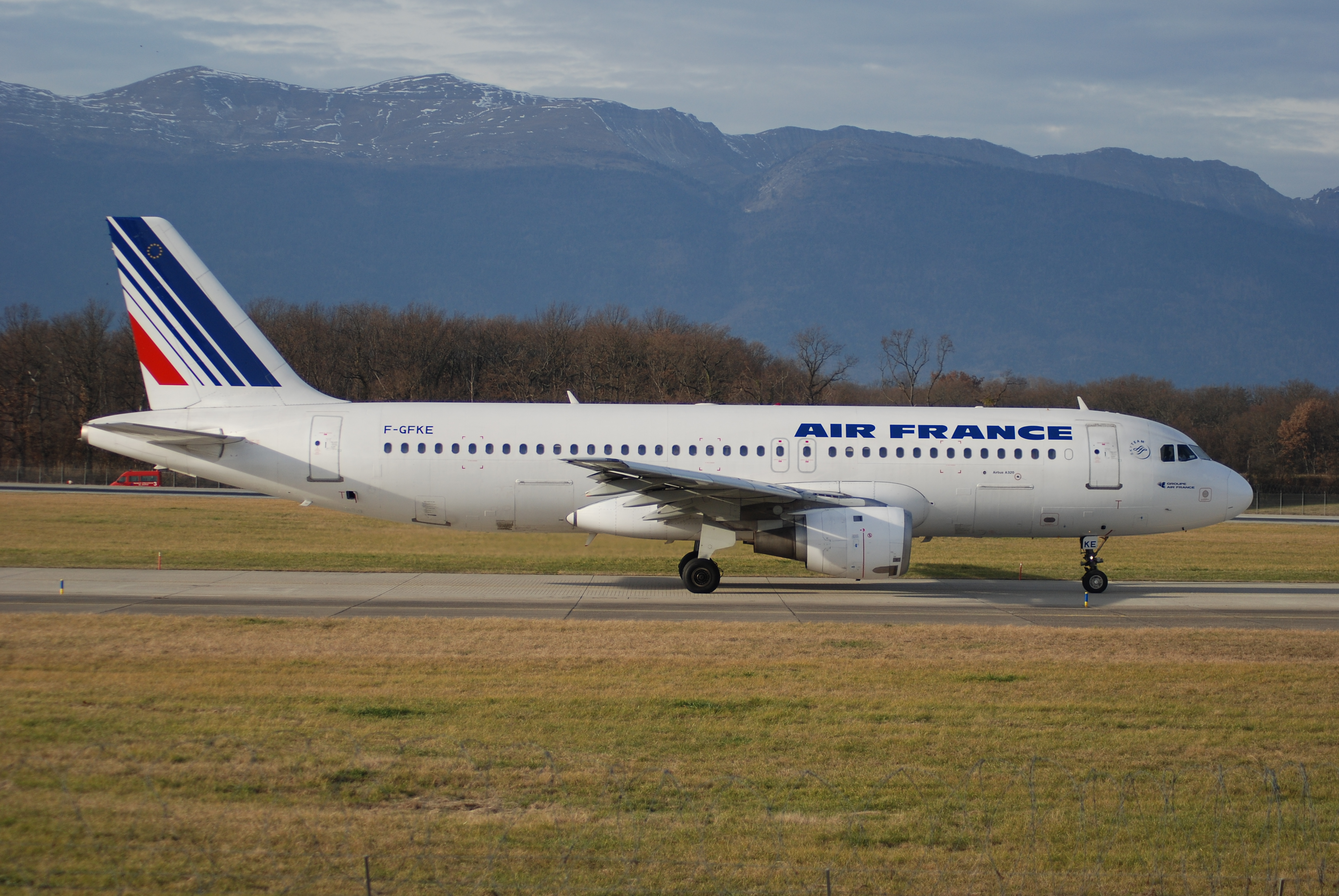 Air France Airbus A320-100; F-GFKE@GVA;30.12.2006/445rr